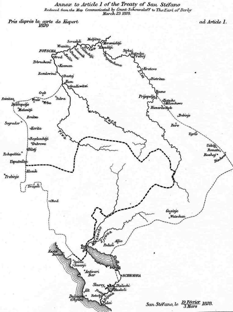 Annex to the Treaty of San Stefano, scanned from the published text of the treaty.